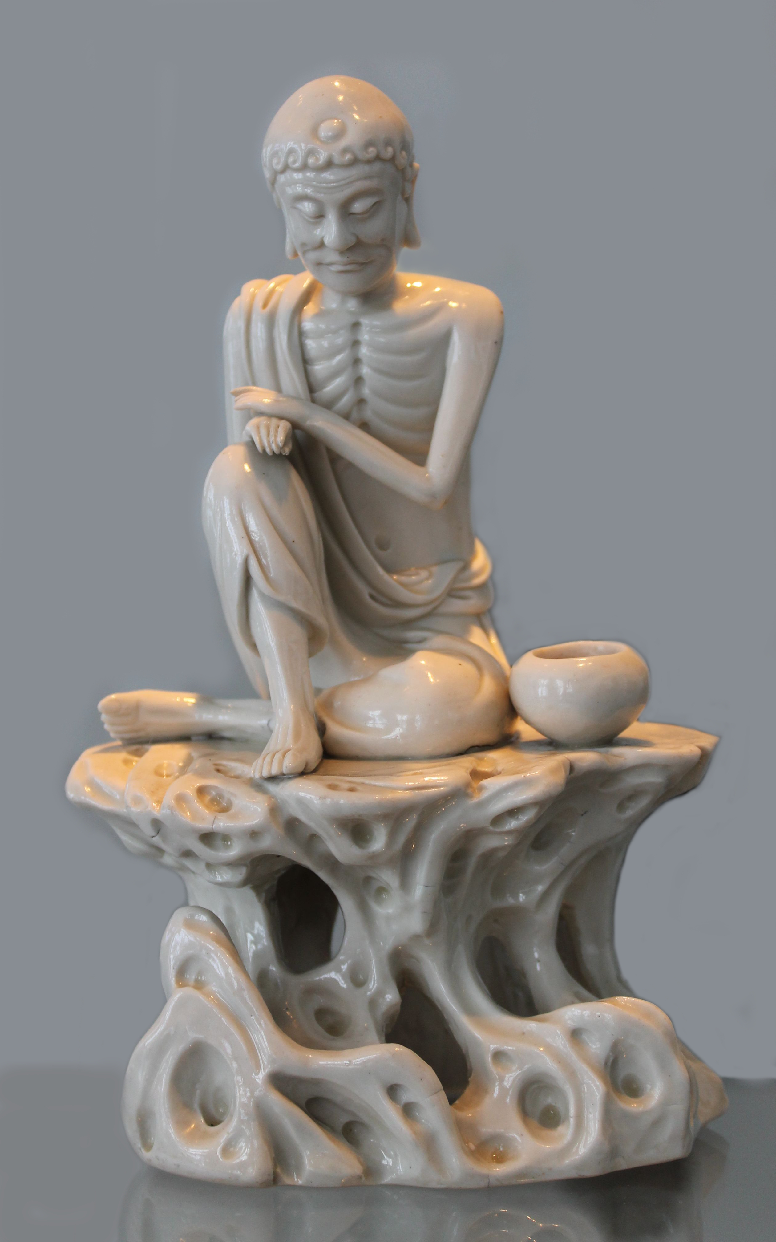 Ascetic Buddha, late Ming period (1368-1644) Blanc-de-Chine, Danish National Museum